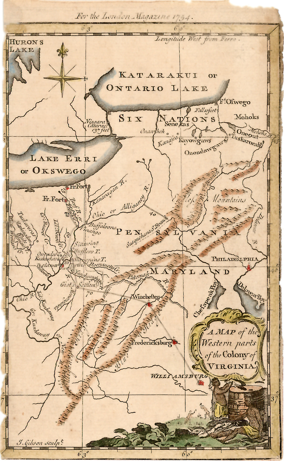 Map of Western Virginia, centered on the Ohio and the Patomak Rivers, showing western settlements in Virignia. The map was among the first American maps to appear in the London Magazine. Map is based on the map of the Western part of Virginia from The Journal Of George Washington, Sent By The Hon. Robert Dinwiddie ... To The Commandant Of The French Forces On The Ohio . . . (London, 1754) . Map shows Washington's route from Williamsburg to the French fort on Lake Erie. A cartouche is adorned with natives producing tobacco. "Six Nations" annotation is found south of Katarakui or Ontario Lake. Lake Erie is named Lake Erri or Okswego. Niagara Falls are annotated "Niagara Cataract 137 feet."